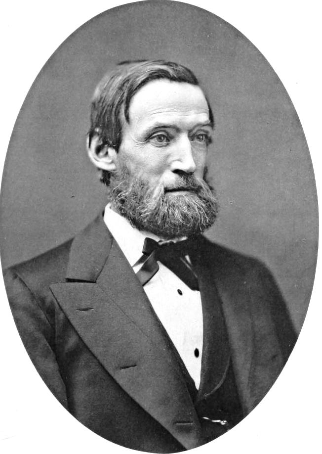 Эрзянь: Portrait of Hubert A. Newton, a professor at Yale College